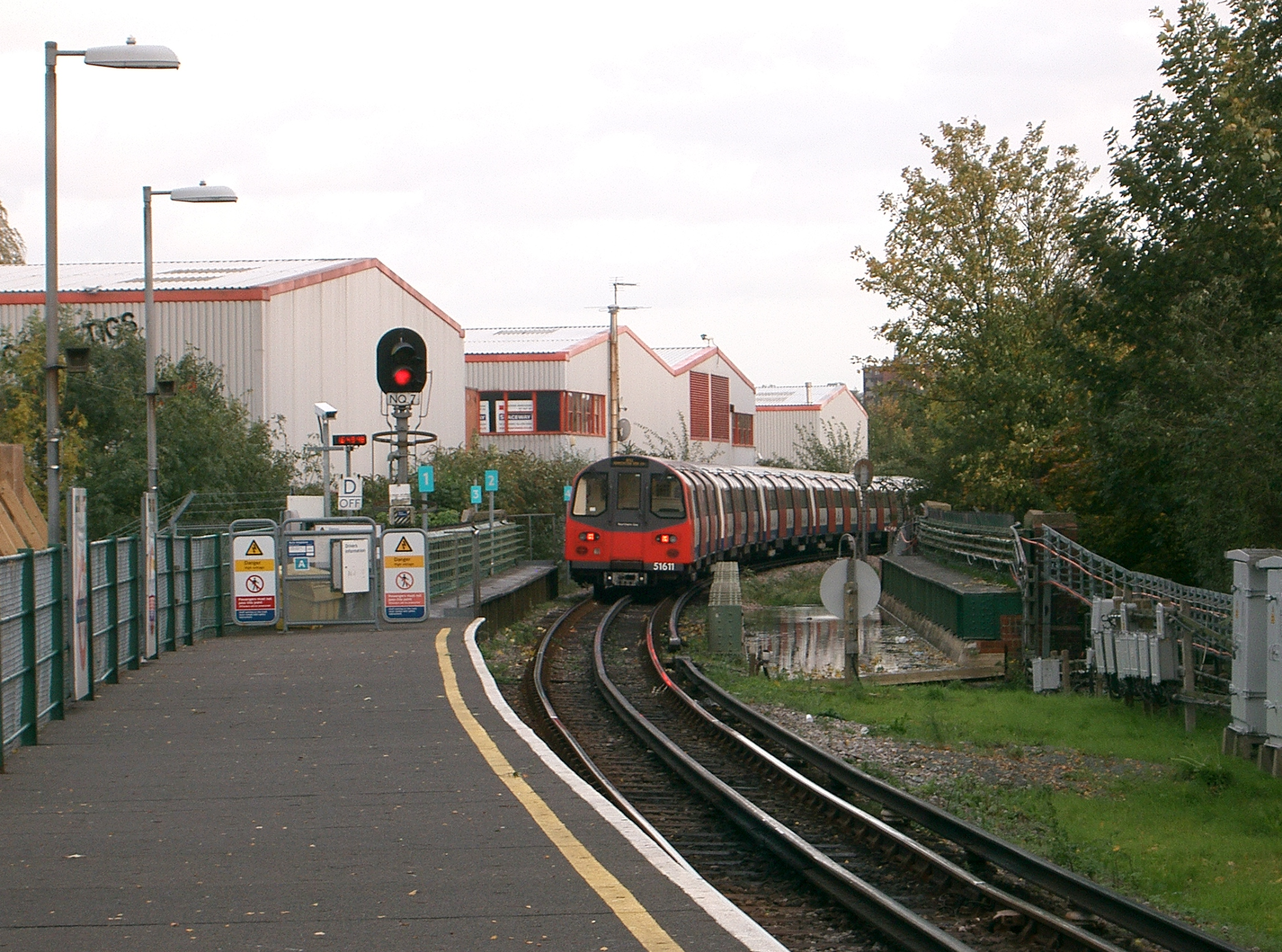 Southbound train leaving Mill Hill East station. Note the provision for the second track (on the right of the train) which was never used.